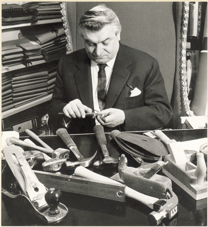 Wäinö Aaltonen sitting at his desk.